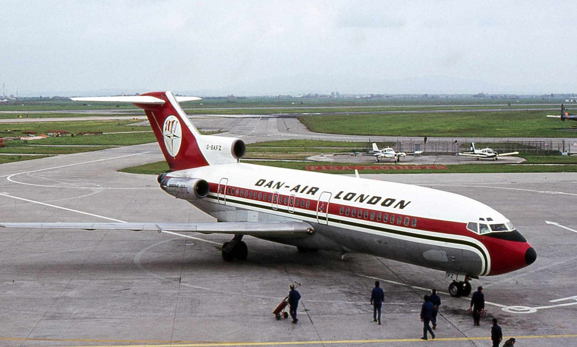 Delivered to Japan Airlines as J8310 Ishikari on January 31, 1966. Sold to Dan-Air on November 1, 1972. Leased to Avianca in December 1985 as HK-3201X and sold later and registered HK-3270X. Leased to Dan-Air in March 1987 as G-BAFZ and subleased to Club Air in October 1987 as EI-BUP and in November to Cayman Airways. Delivered to Aircrew Leasing in November 1988 and registered N7046A. Delivered to SAM Colombia in December 1988 and registered HK-3458X. Delivered to Omega Air Ltd in May 1991 as EL-AKE. Delivered to New ACS in April 1992, registered 9Q-CRA , withdrawn from use and stored at Kinshasa N'djili Airport.